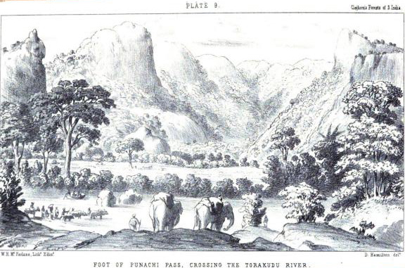 Douglas_Hamilton,_Alan,_Foot_of_the_Poonachy_Pass_Crossing_the_Torakudu_River.jpg